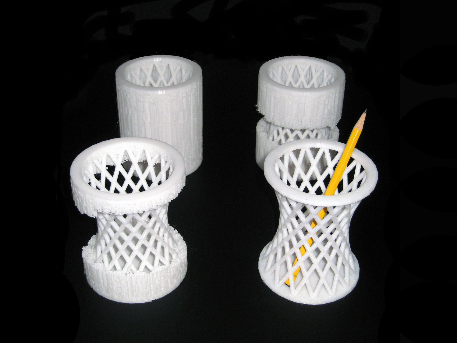 removing support material of a 3D-printed pen stand printed on Ultimaker 2